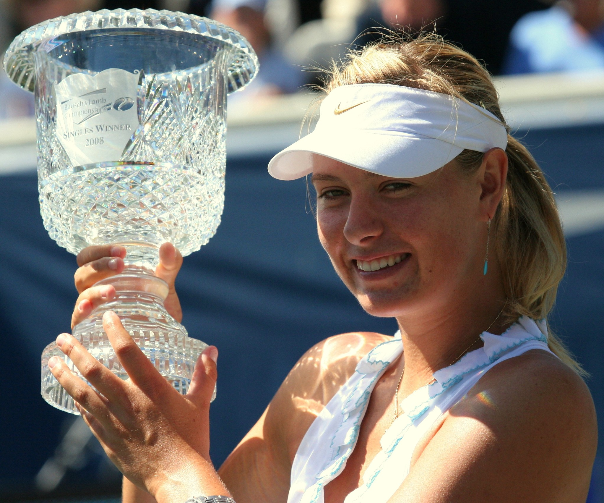 Maria Sharapova holding the 2008 Bausch & Lomb Championship trophy